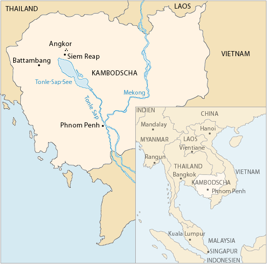 Map of Cambodia — showing Angkor, and the routes of the Tonlé Sap and Mekong rivers. siehe auch: Tonle Sap See, Südostasien Manfred Werner (Benutzer:Tsui), 2004.